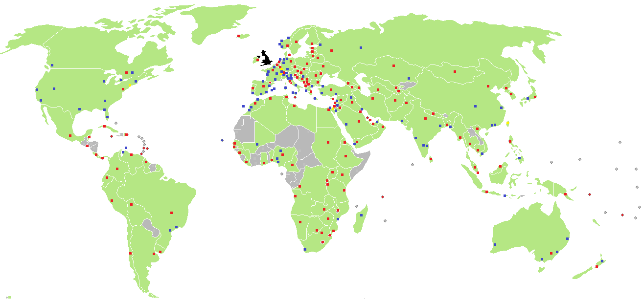 Location of British diplomatic missions as of May 2010, based on FCO website. Red indicates embassies and high commissions. Blue indicates consulates-general, consulates and liaison offices directly subordinate to a resident embassy or high commission. Yellow indicates other diplomatic missions